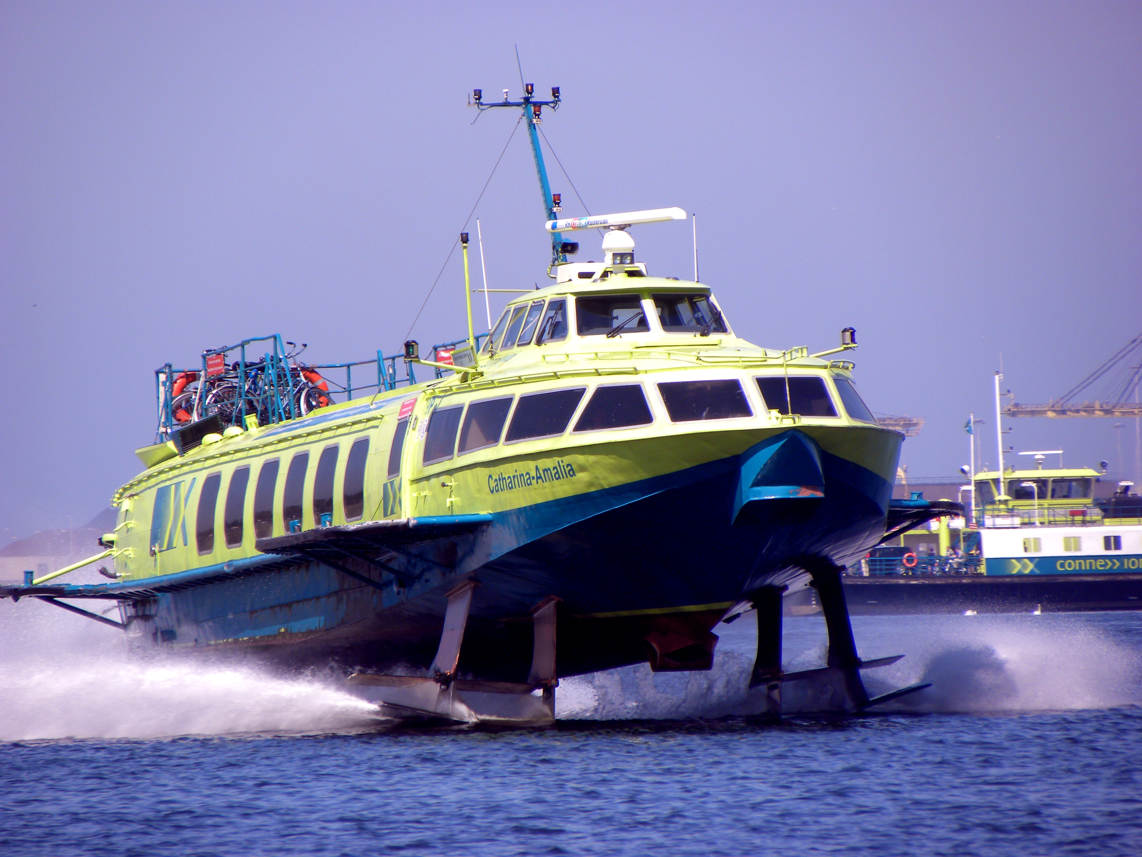 The following is the author's description of the photograph quoted directly from the photograph's Flickr page. "Catharina Amalia from Connexxion is a Morye Voskhod - 2M build in the Ukraine here on its way to amsterdam "